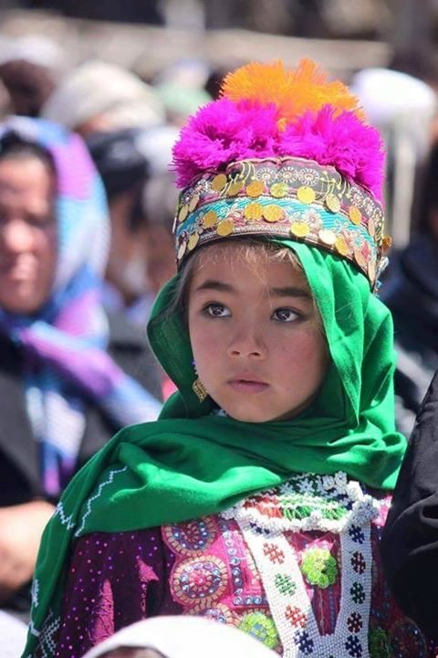 Hazara girl in Daykundi Province (Central Afghanistan), 2017